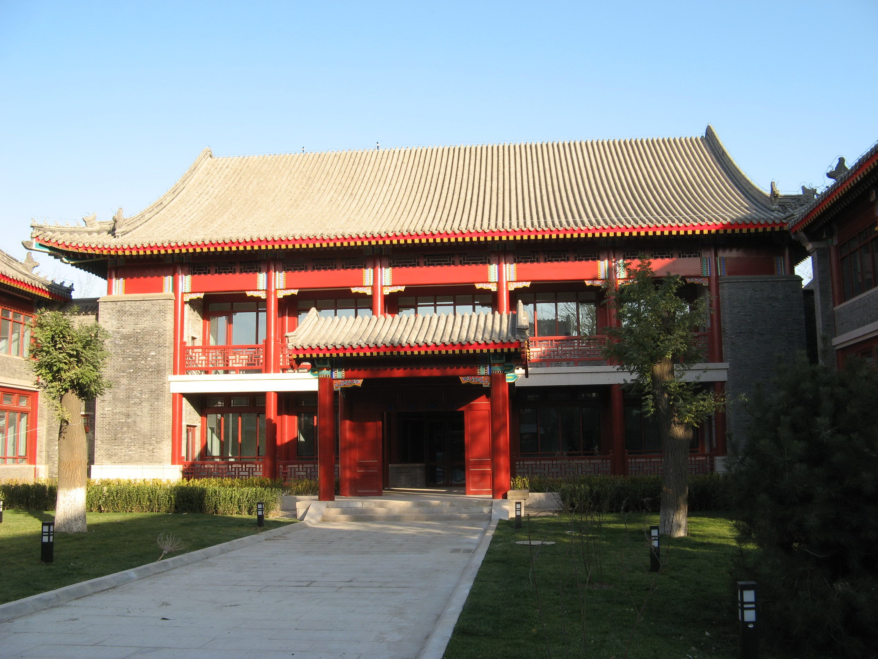 Lee Shau Kee Humanities Buildings, Peking University